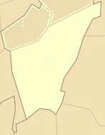 This is map of Dera Ismail Khan District.